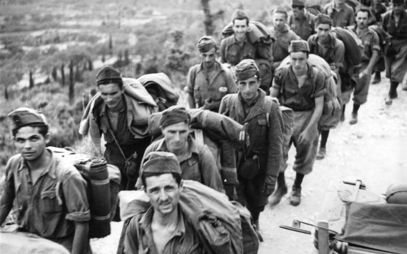 Information added by Wikimedia users.